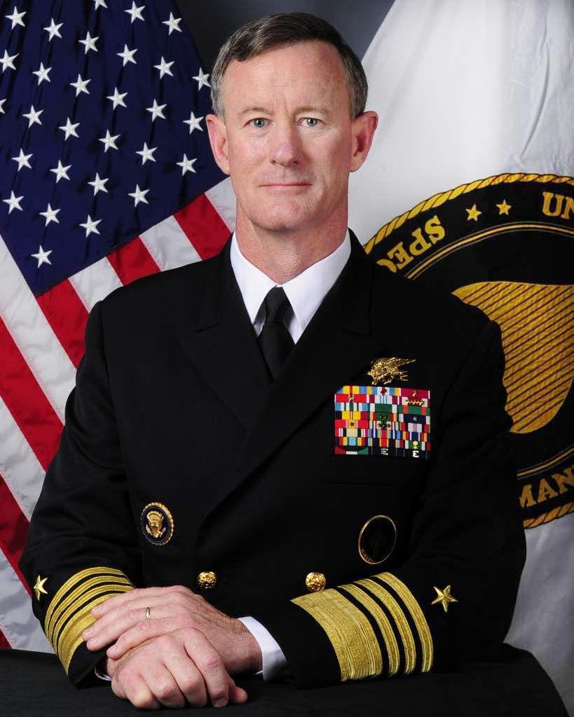 Admiral William H. "Bill" McRaven, USN, 9th Commander, U.S. Special Operations Command (USSOCOM)